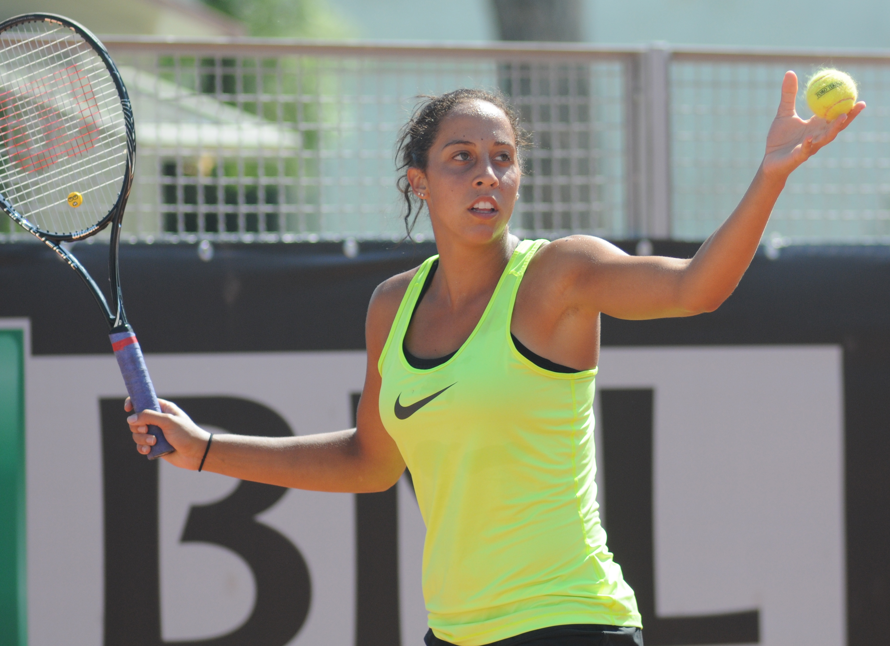 Madison Keys at the 2014 Internazionali BNL d'Italia aka the Rome Masters